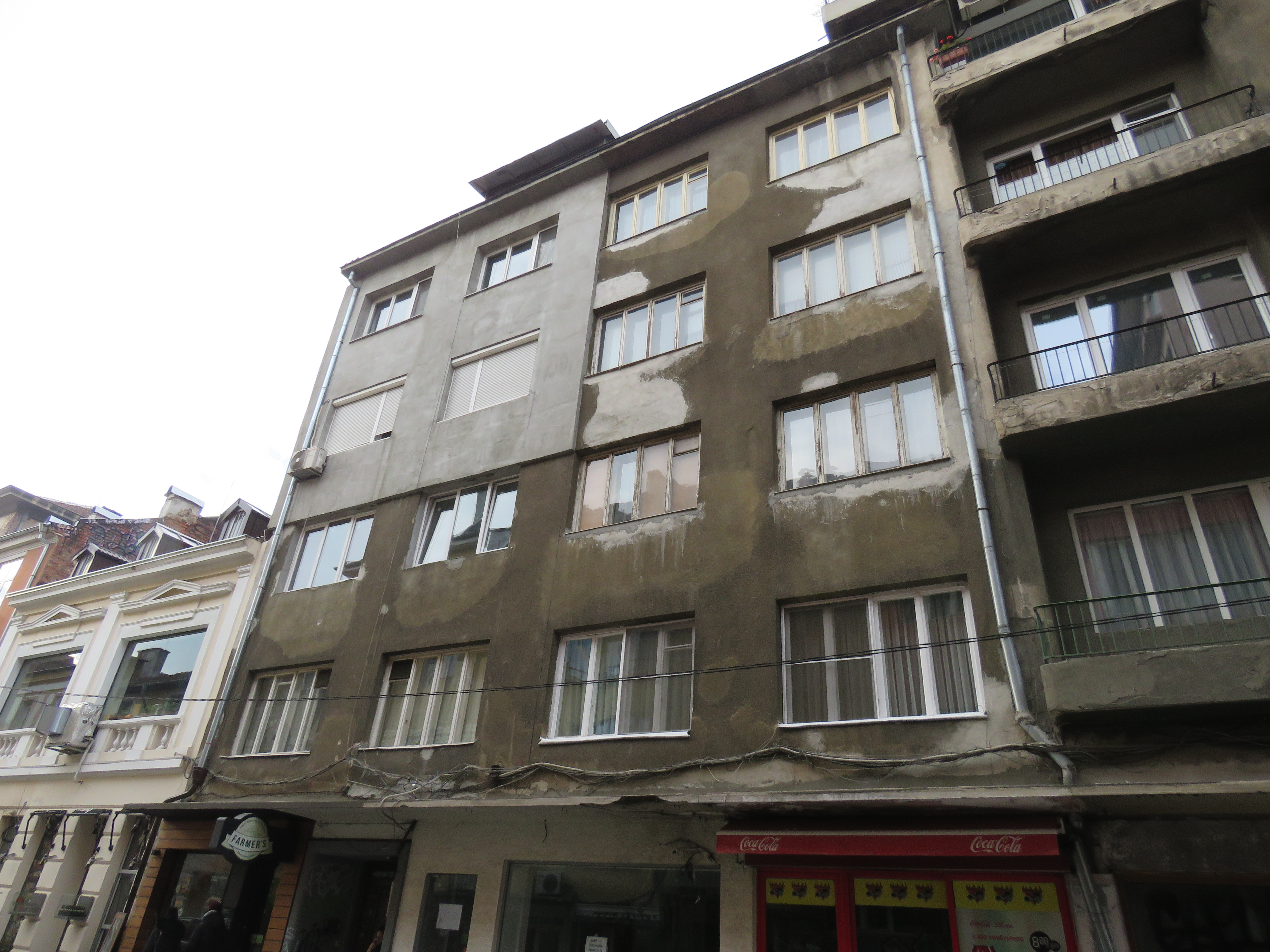 Dimitar Manchev home with memorial plaque, 38 General Gurko Str., Sofia